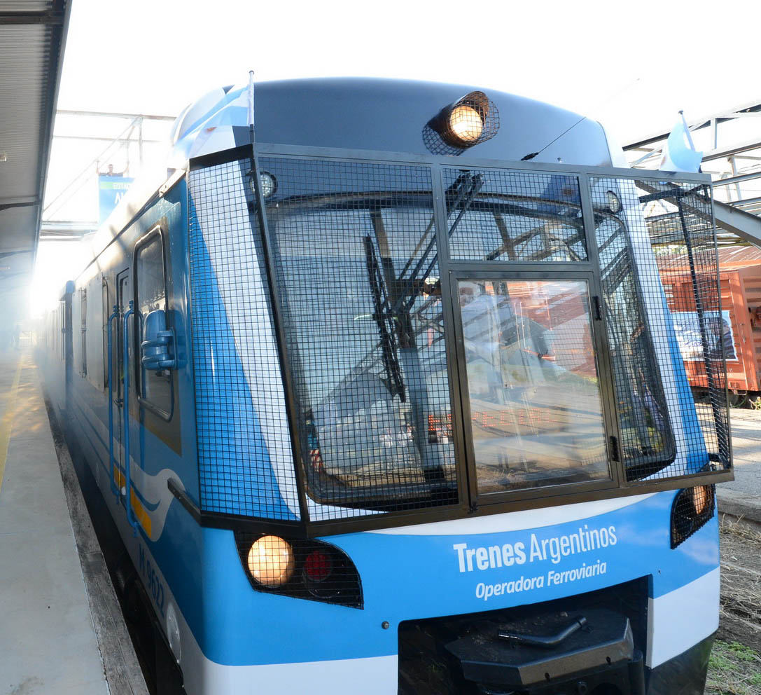 A Tren de las Sierras formation in Alta Córdoba station, the day that AC was put into operation as terminus again.